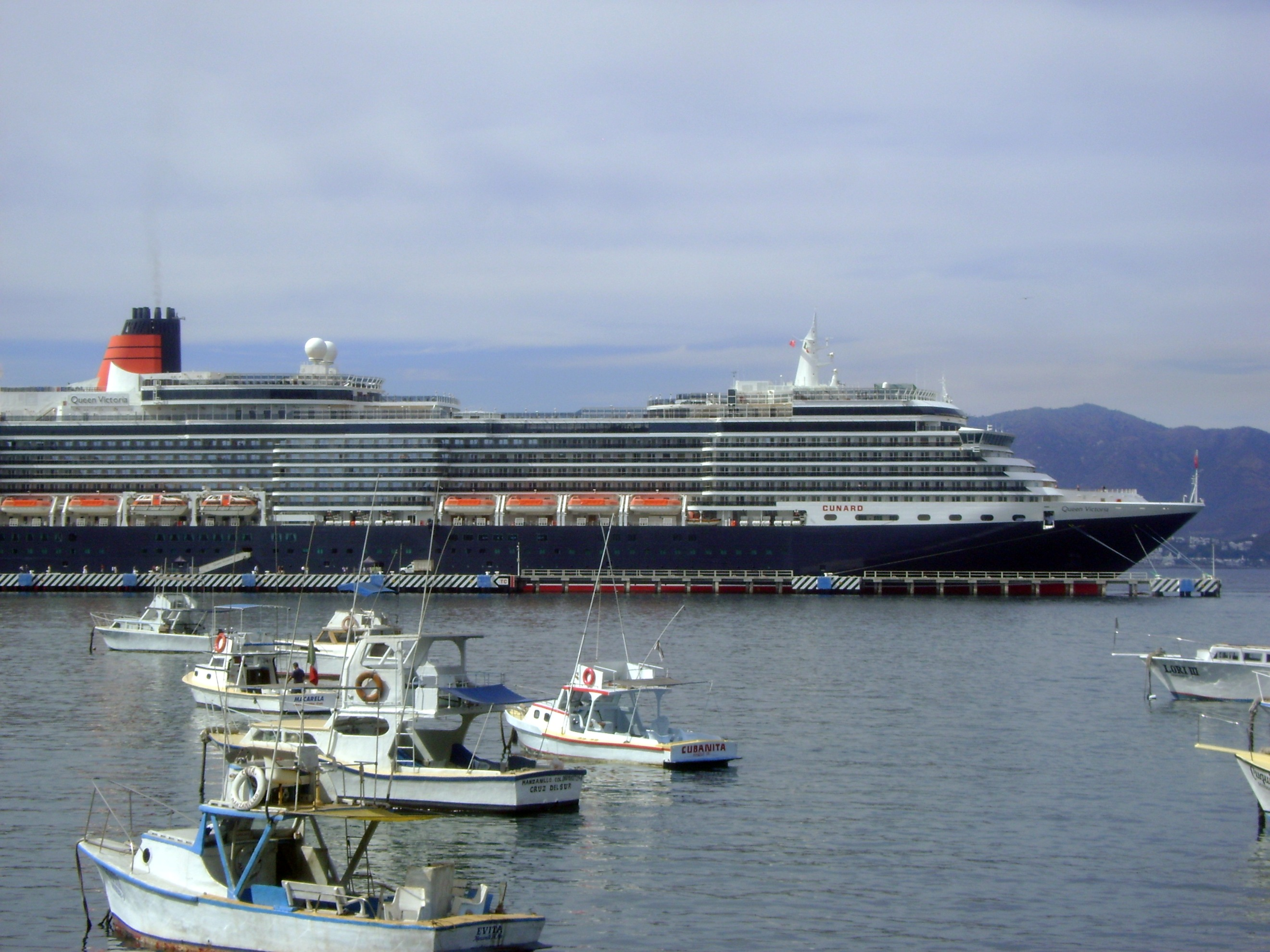 MS Queen Victoria in Manzanillo, Mexico. January 27, 2011.